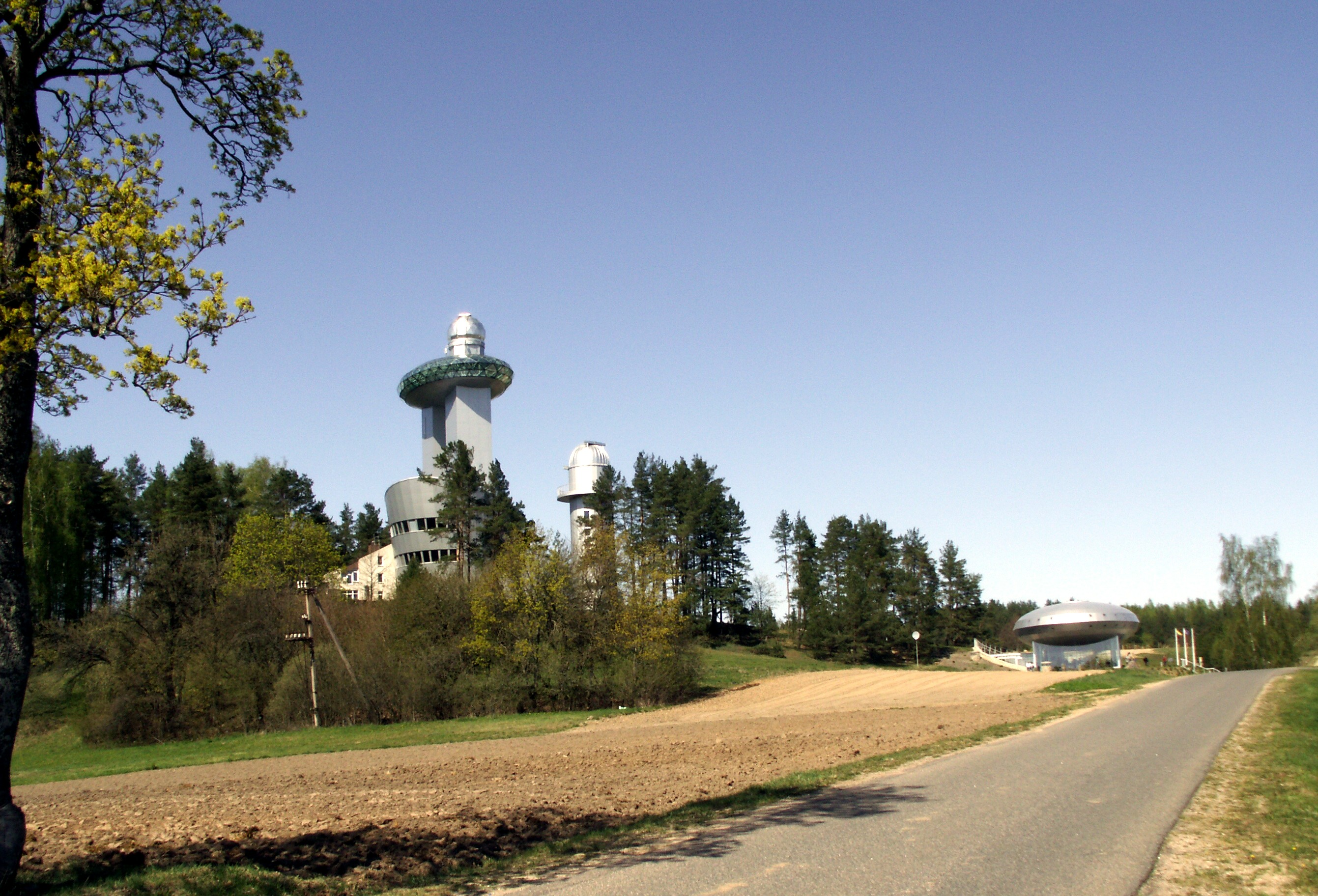 Museum of ethnocosmology, Kulionys, Molėtai district, Lithuania